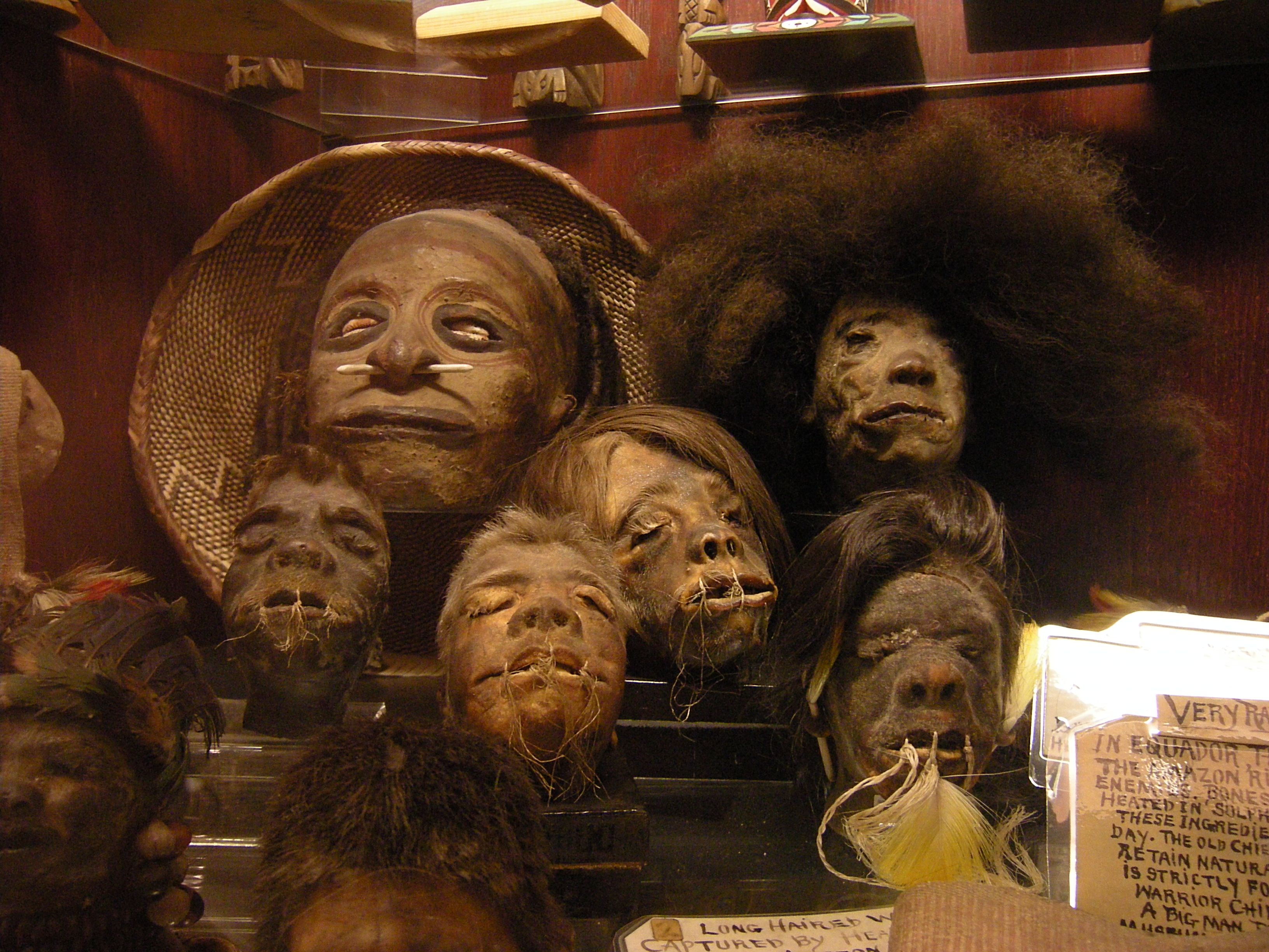 Shrunken heads in the permanent collection of Ye Olde Curiosity Shop, Seattle, Washington. According to Kate Duncan's book 1001 Curious Things, these are probably a mix of real and fake. Shop founder J. E. "Daddy" Standley thought they were all real, but was probably conned on some of them.